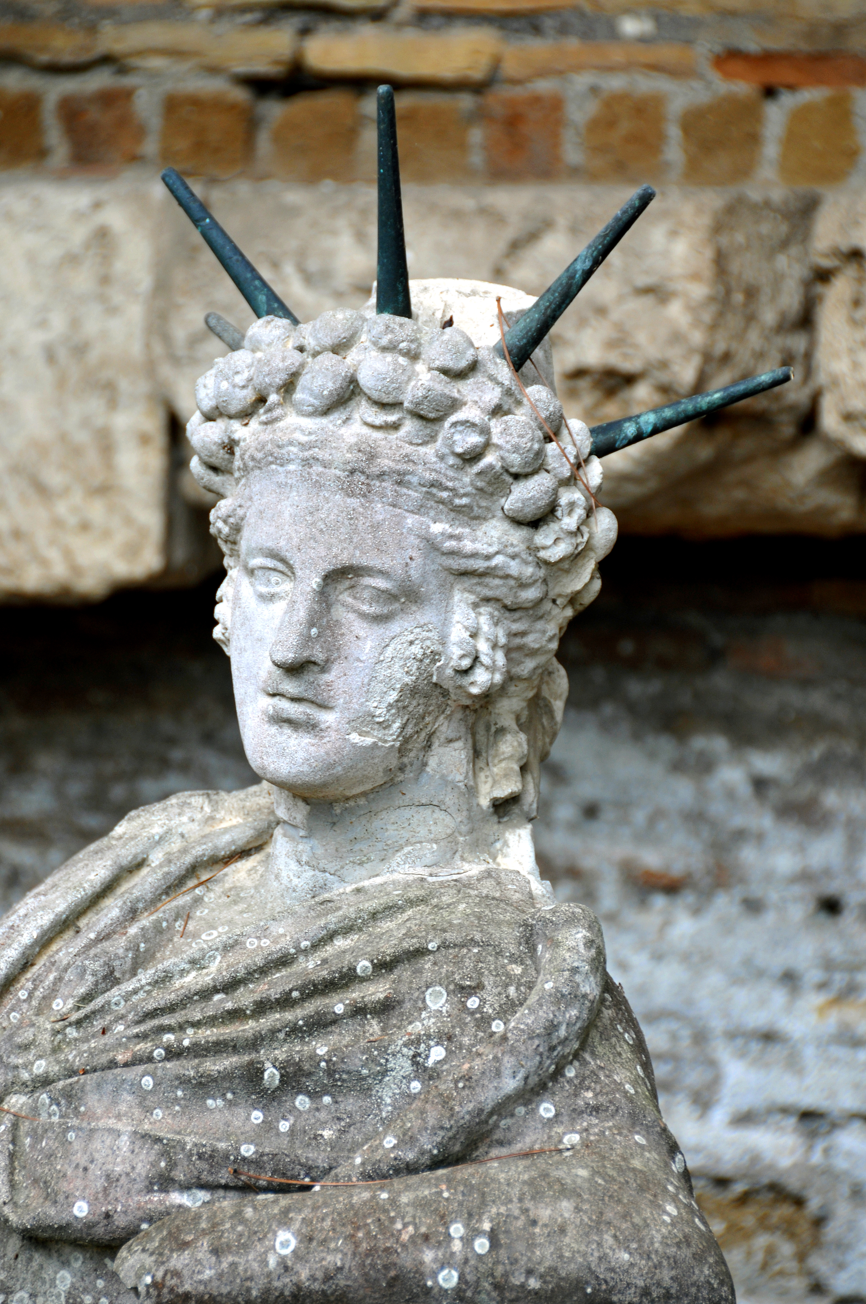 Statue of a reclining Attis. The Shrine of Attis is situated to the east of the Campus of the Magna Mater in Ostia.In the apse is a plaster cast (the original is in the Vatican Museums) of a statue of a reclining Attis, after the emasculation. In his left hand is a shepherd's crook, in his right hand a pomegranate. His head is crowned with bronze rays of the sun and on his Phrygian cap is a crescent moon. This suggests astrological aspects: Attis was regarded as a solar deity and identified with the moon-god Men. He is leaning on a bust, probably the personification of the river Gallos, where he had died. His posture is reminiscent of river gods (the river Gallos), but the statue also brings to mind sarcophagi, with a depiction of the deceased on the lid. The statue is a dedication by C. Cartilius Euplus